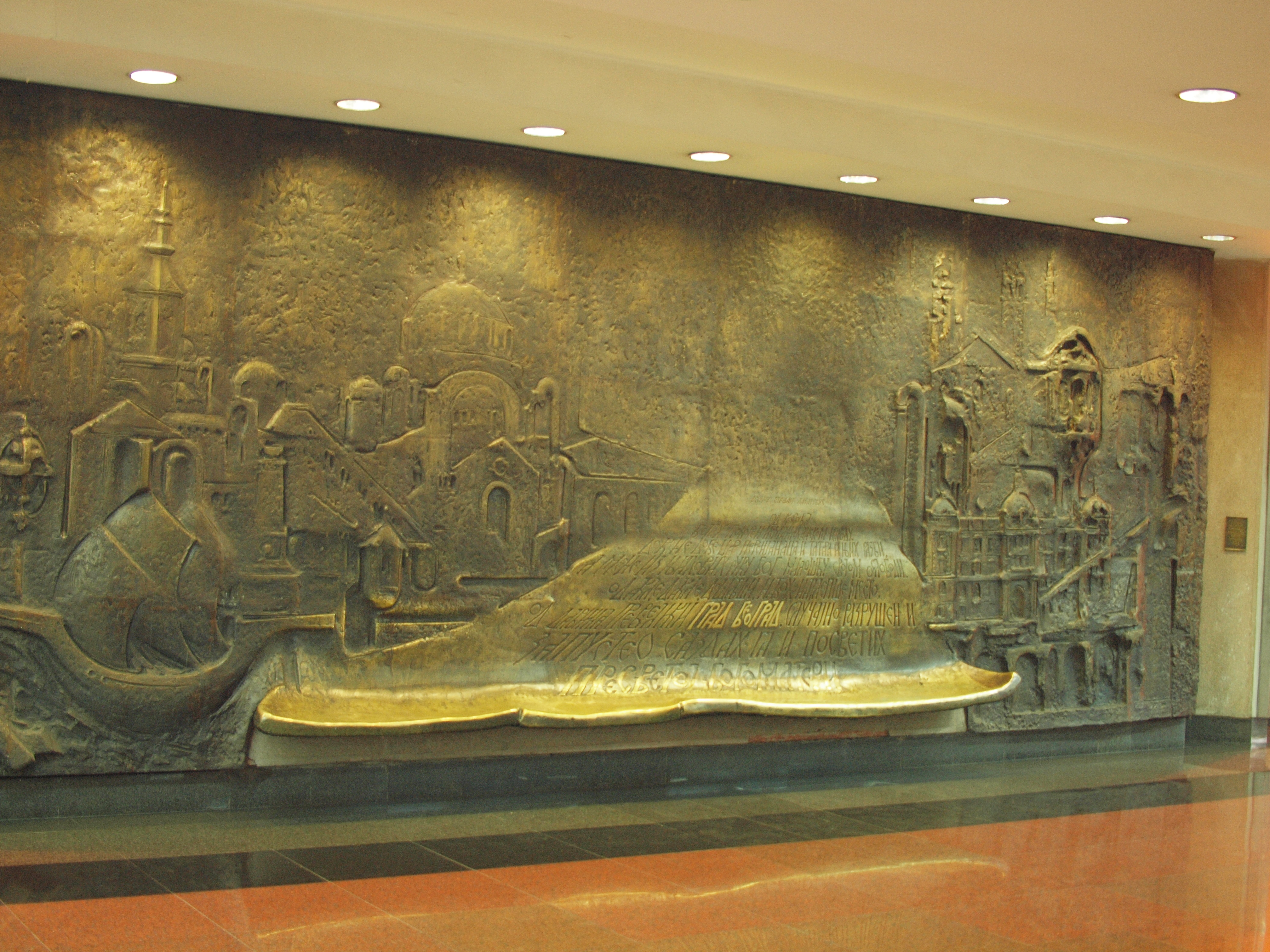 Relijef Beograd Simbol prenosena prestonice Vukov spomenik I